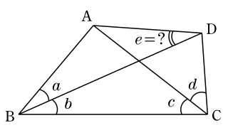 Problem of a quadrangle with integer angles